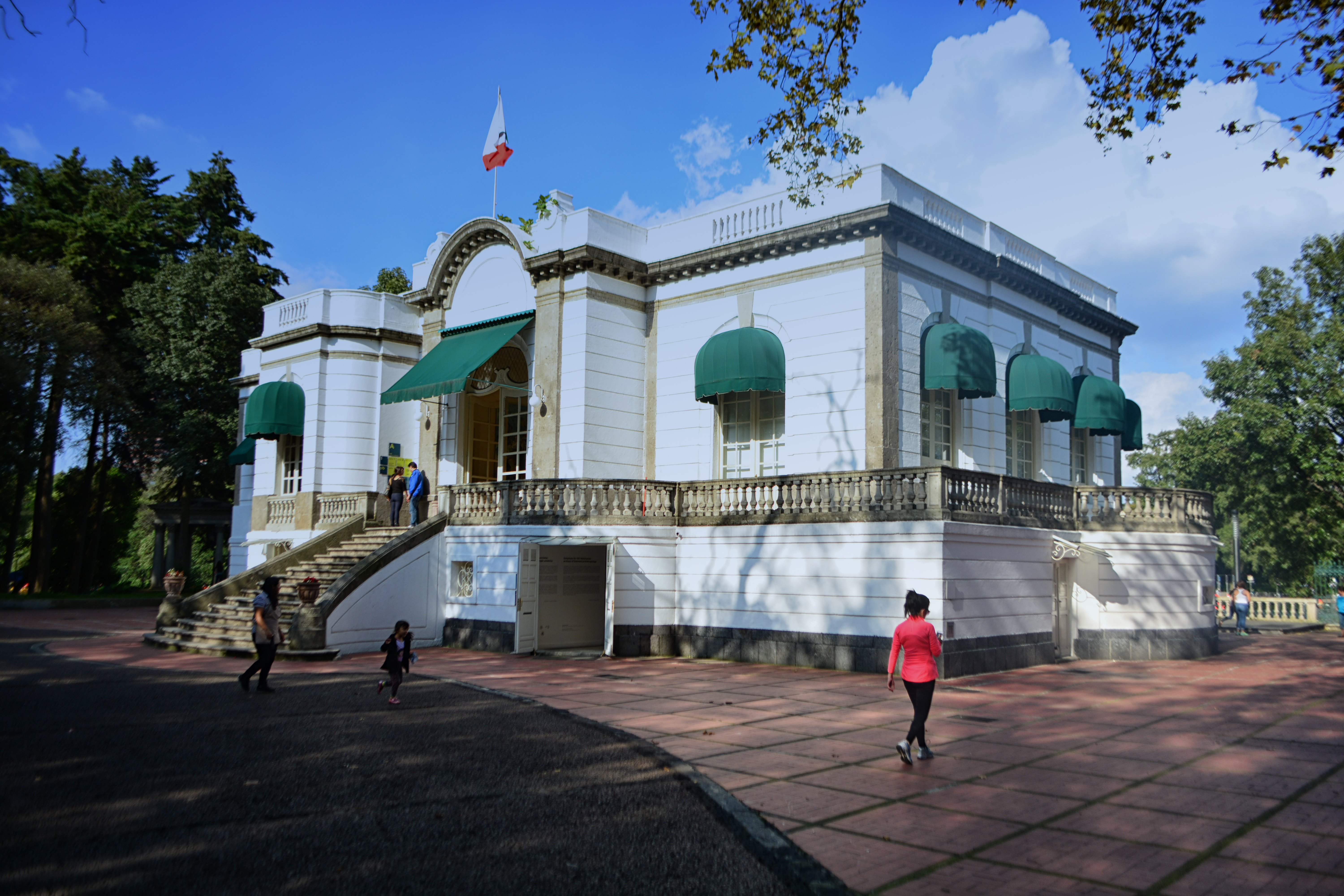 Bosque de Chapultepec Mexico City